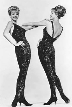 Publicity photo of the Kessler Twins.